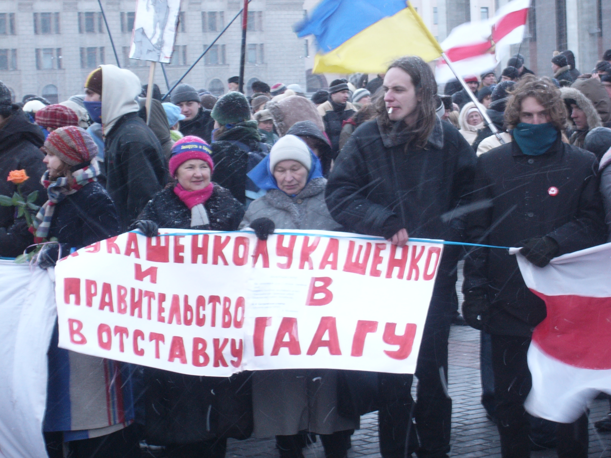 Meeting of oposition after presidental election. October square, Minsk, Belarus. March 21 2006